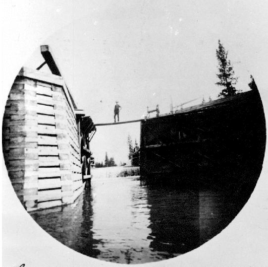 Lock at Canal Flats, BC, close up view.